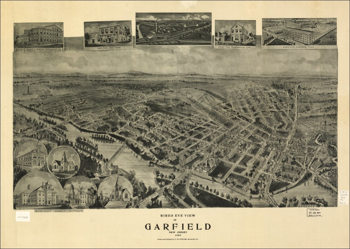 Birds Eye View of Garfield New Jersey 1909. Image taken from American Memory from the Library of Congress